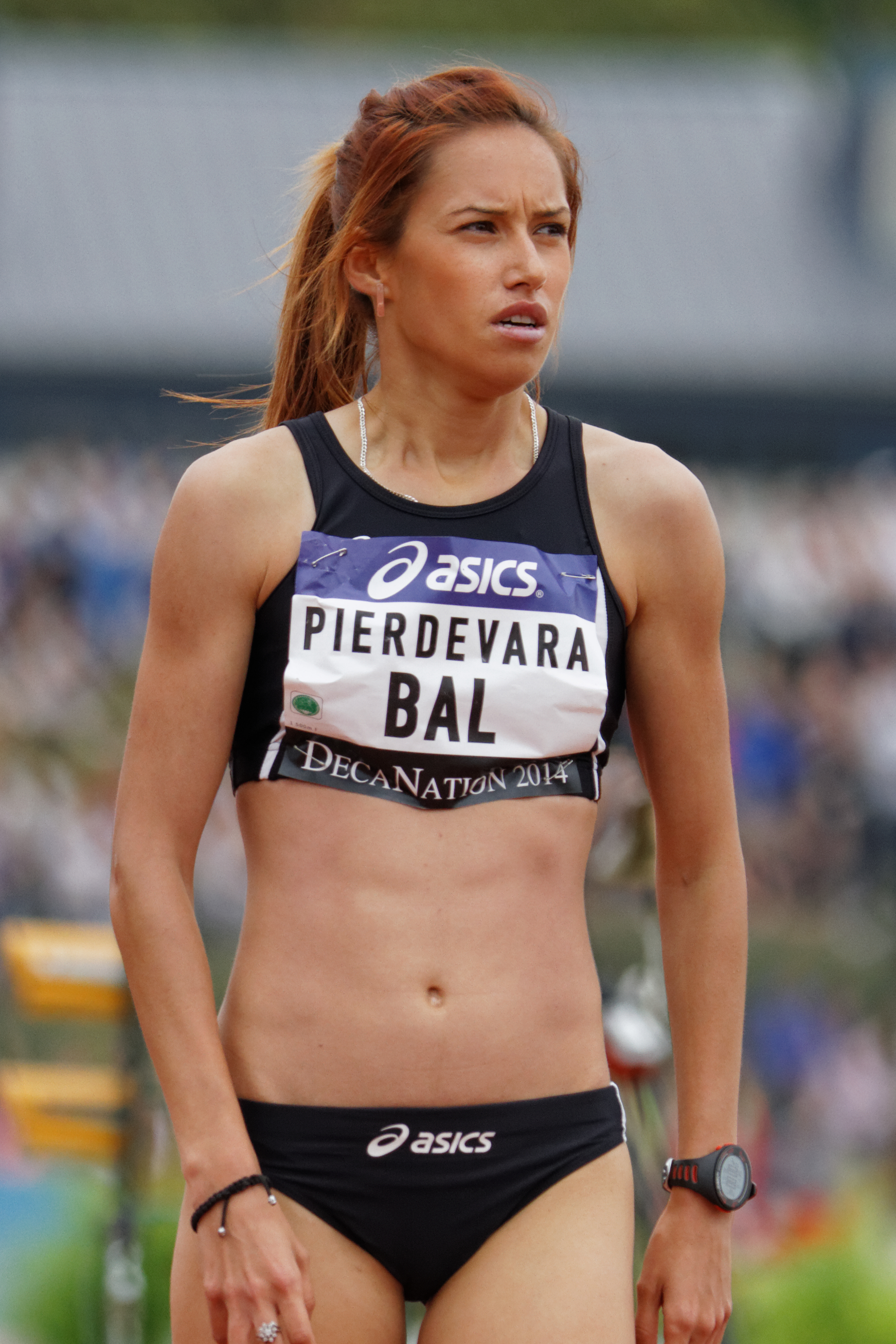 Florina Pierdevara competing at the DécaNation 2014 in the 1500m.